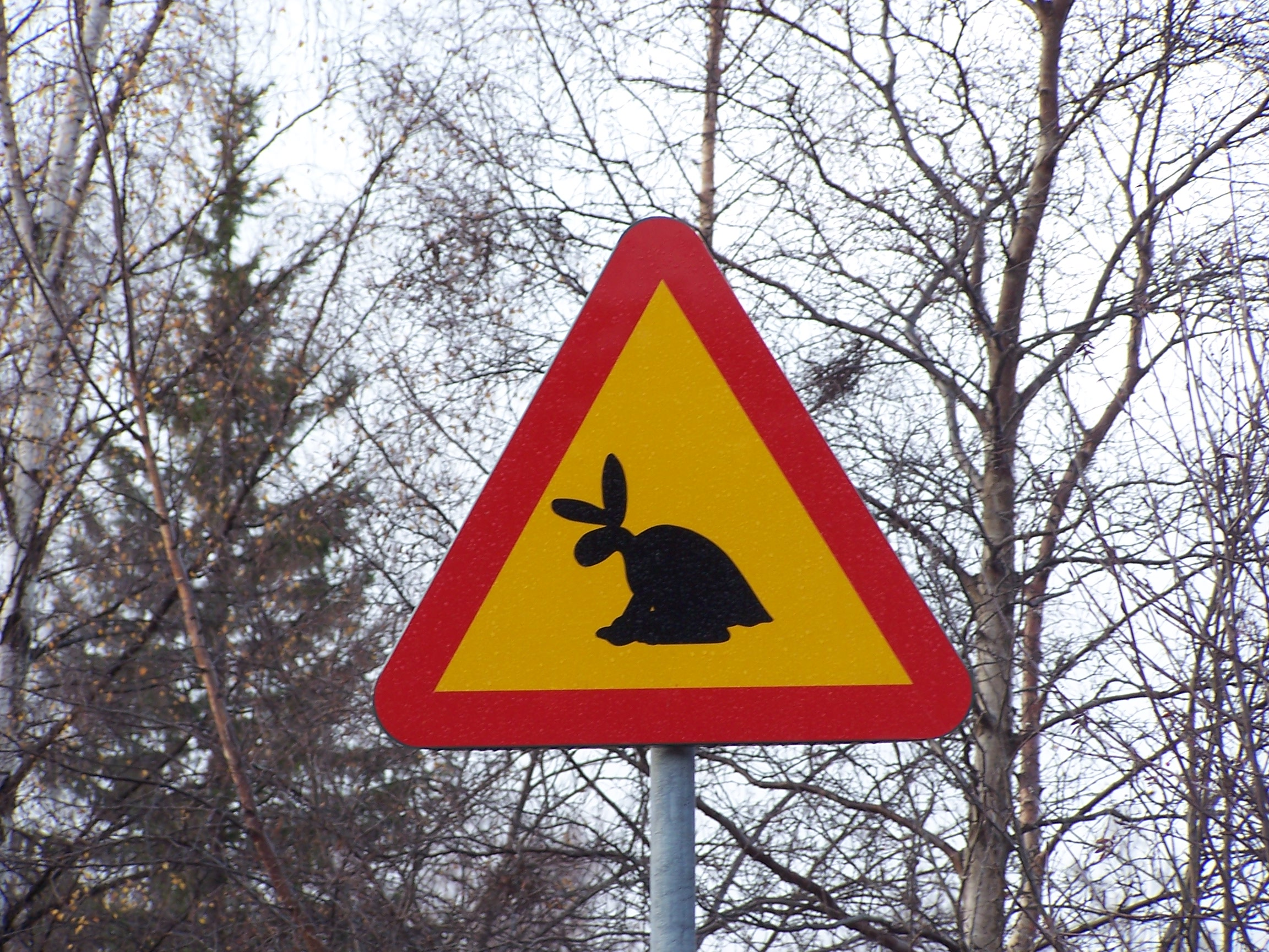 Road sign with Skvader in Sundsvall, Sweden